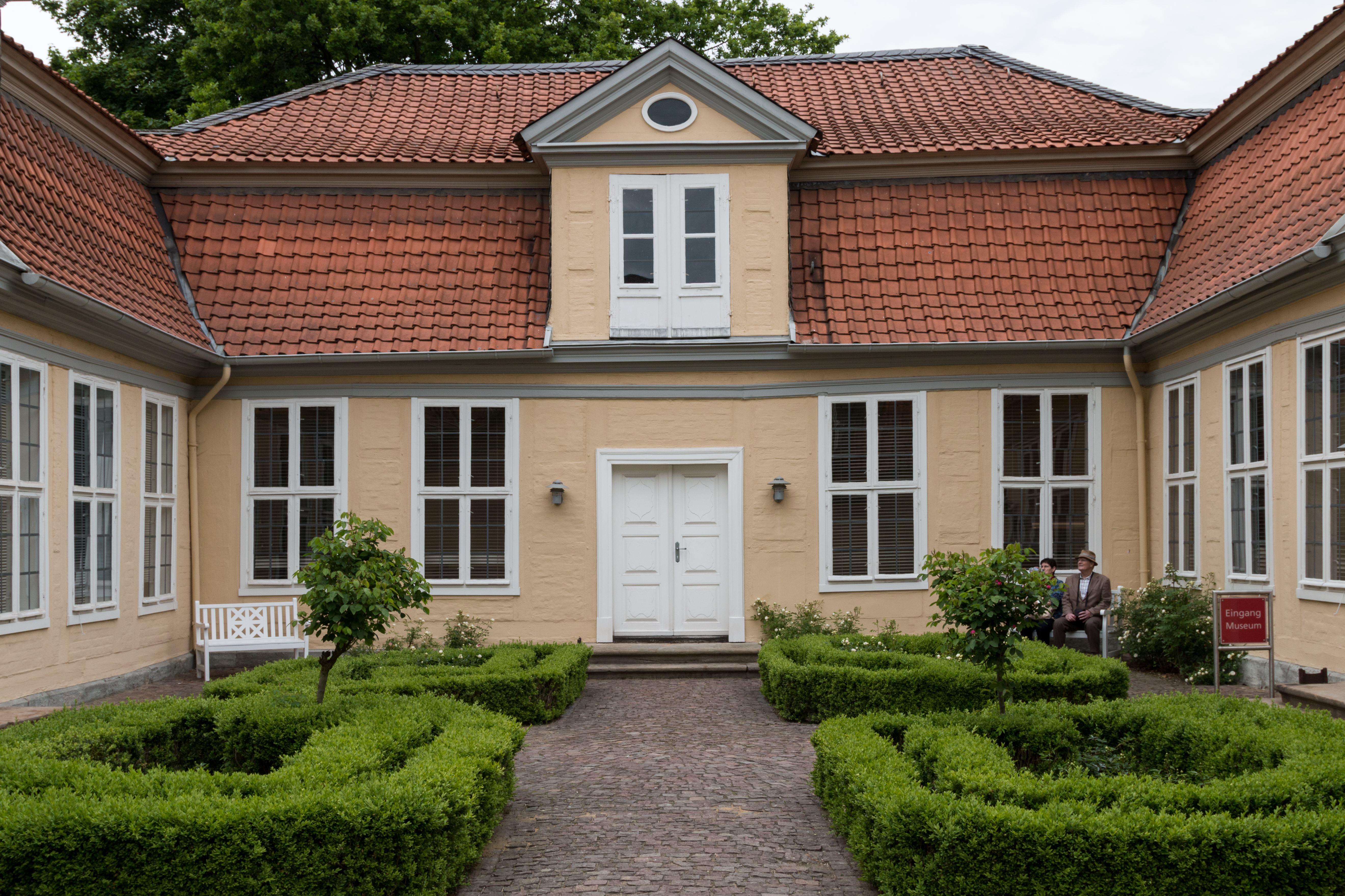 The Lessing House was built in 1738 as a courtier's house with three wings and corner pavilions in the style of a French park chateau. From 1777 till 1781 it was the residence of Gotthold Ephraim Lessing , the ducal librarian. The building has formed part of the Herzog August Bibliothek since 1968. It displays an exhibition on the life and work of Gotthold Ephraim Lessing and contains housing for fellows of the library.